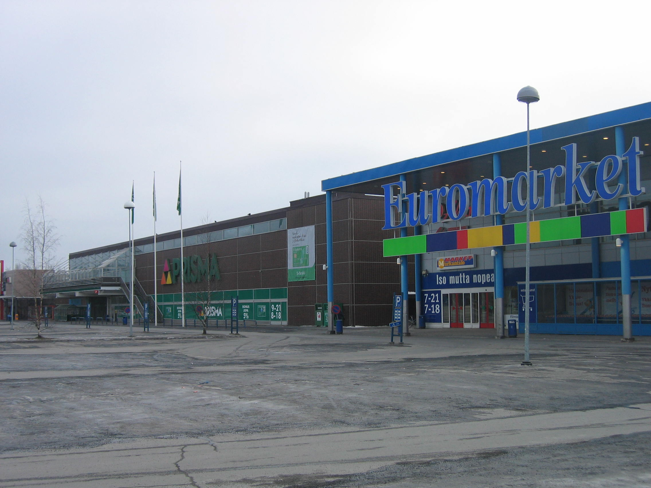 Big stores in Raksila, Oulu, Finland